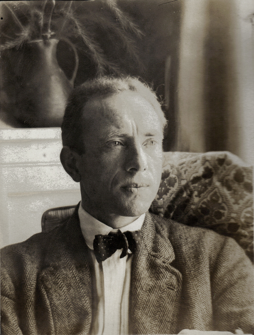 Photographic Portrait of Charles Kennedy Scott, in 1925.